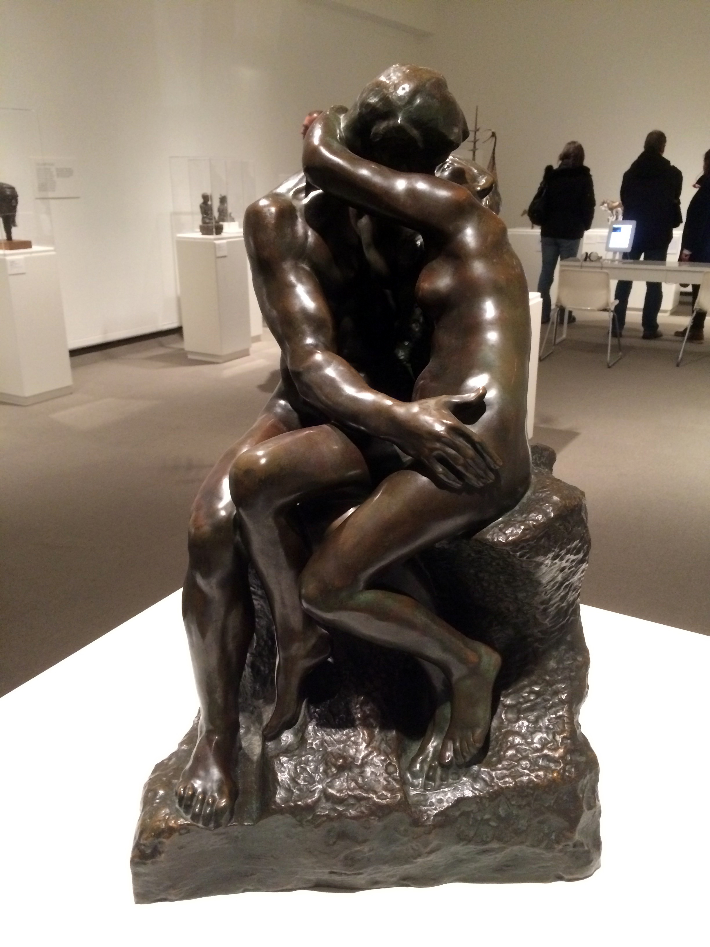 A small bronze version of Auguste Rodin's 1882 marble sculpture. The MacKenzie Gallery dates this copy to 1917,.